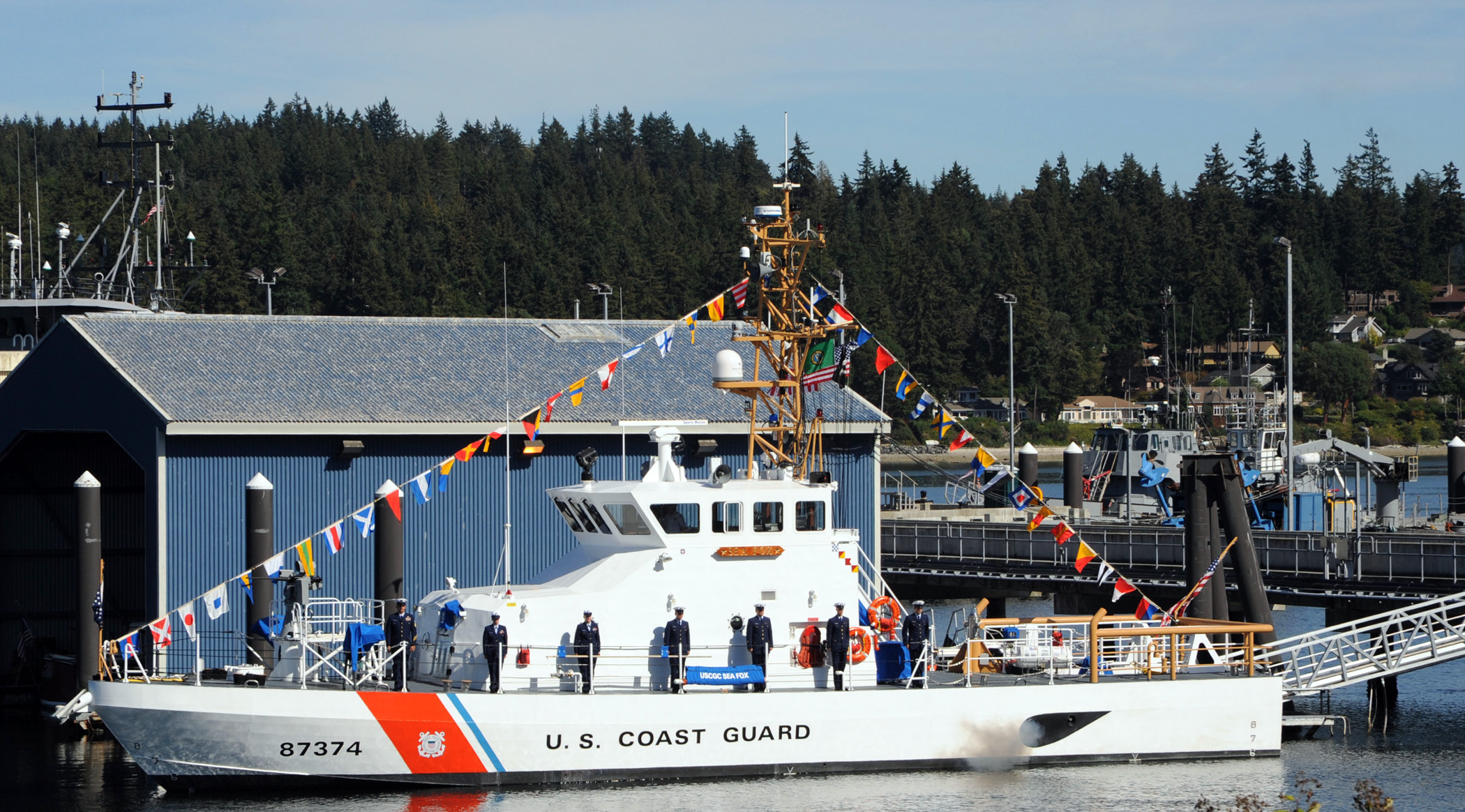 KEYPORT, Wash. (Aug. 18, 2009) U. S. Coast Guardsmen man the rails as the U.S. Coast Guard Cutter Sea Fox (WPB 87374) is brought to life at Naval Base Kitsap. (U.S. Navy photo Ray Narimatsu/Released)